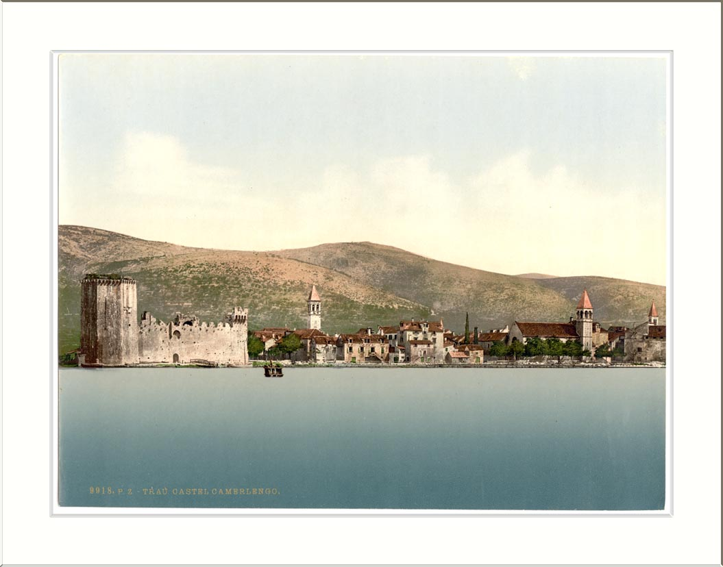 Traû Camerlengo Castle Dalmatia Austro-Hungary